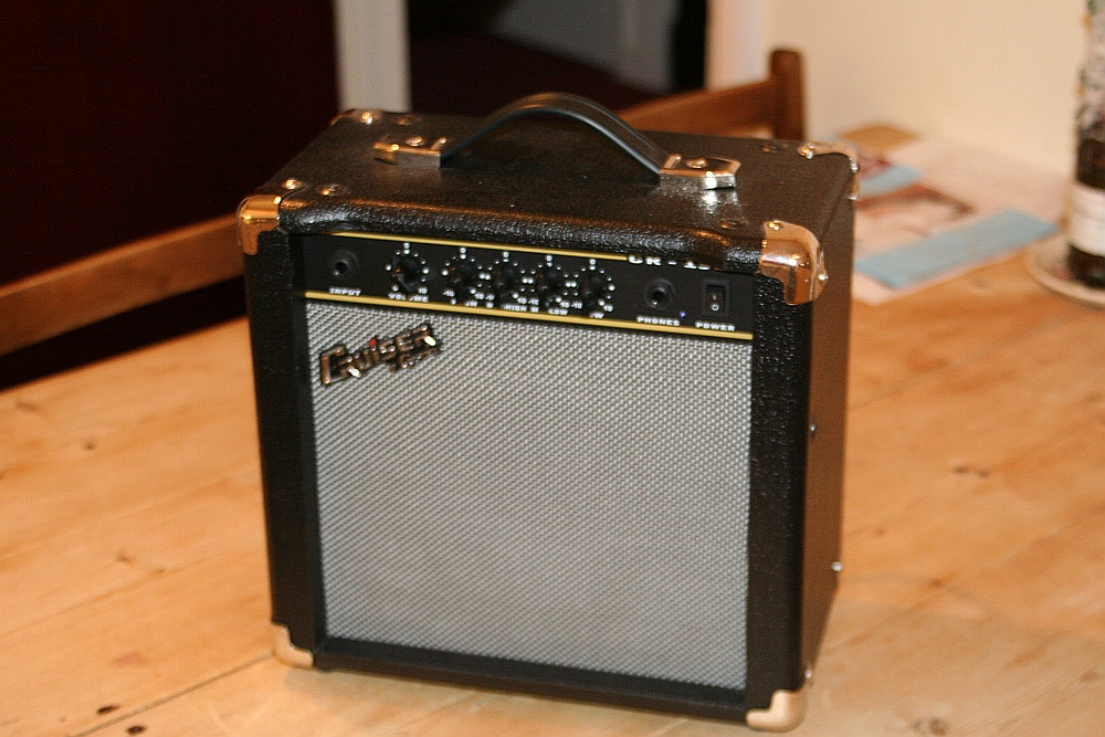 Cruiser by Crafter CR-15B bass combo amp “charade #122 answer Rebecca's guitar amp.”